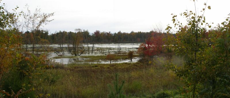 Wetlands between ridges in Pines Township, Porter County, Indiana